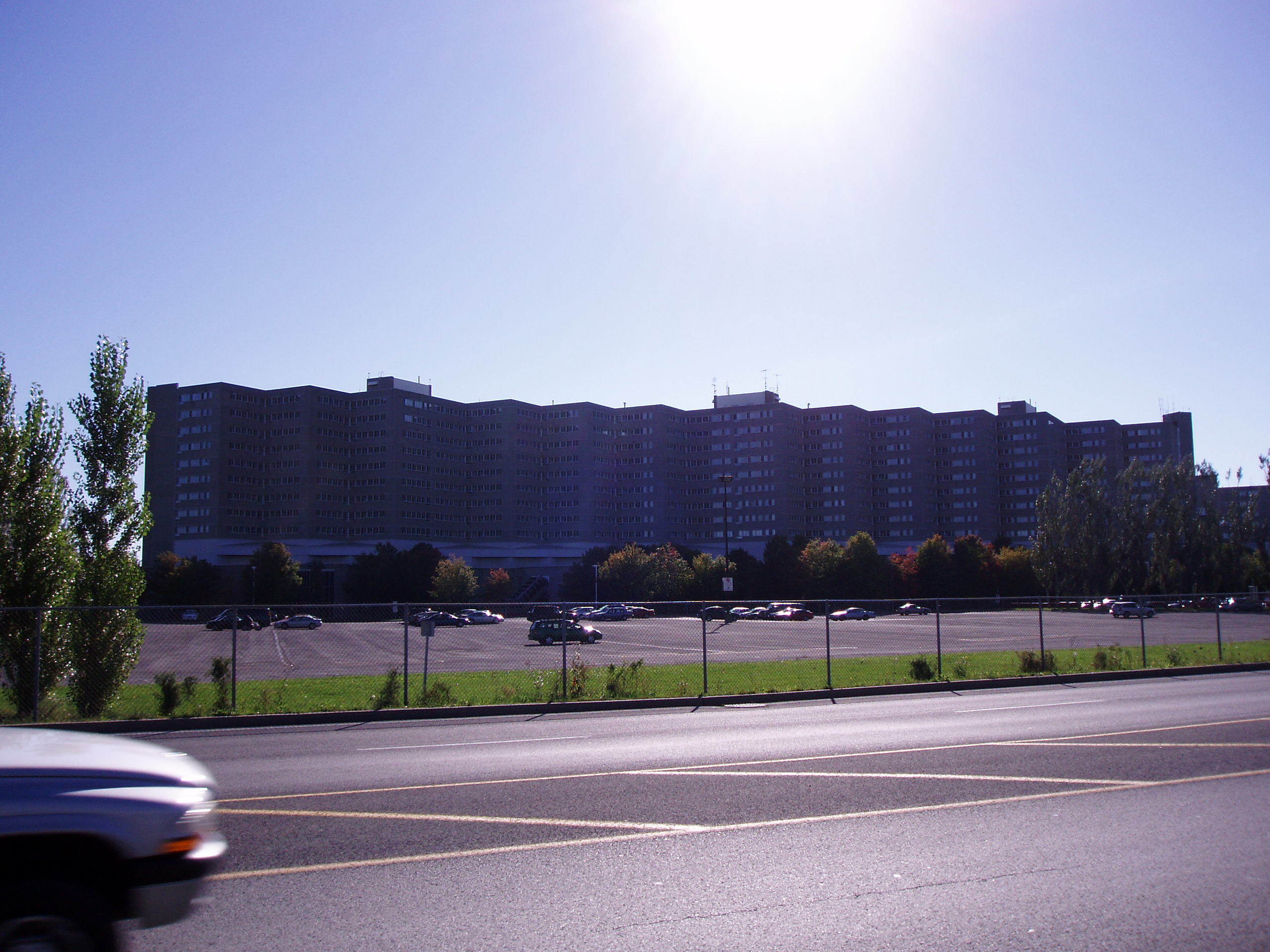 This is a photo of the General Jean Victor Allard Building in Saint-Jean-sur-Richelieu, Quebec, Canada.